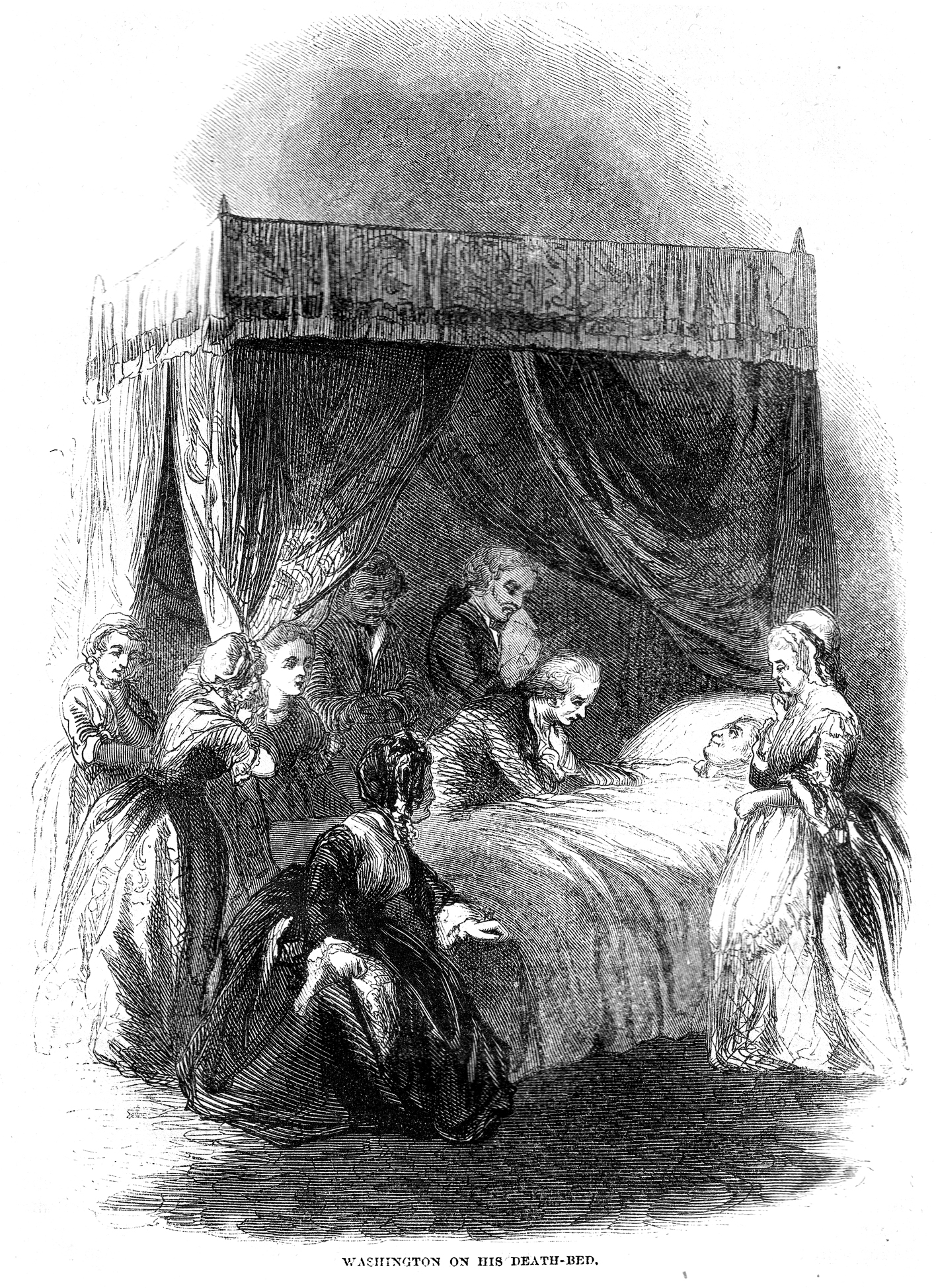 George Washington on his death-bed (engraving) 1856